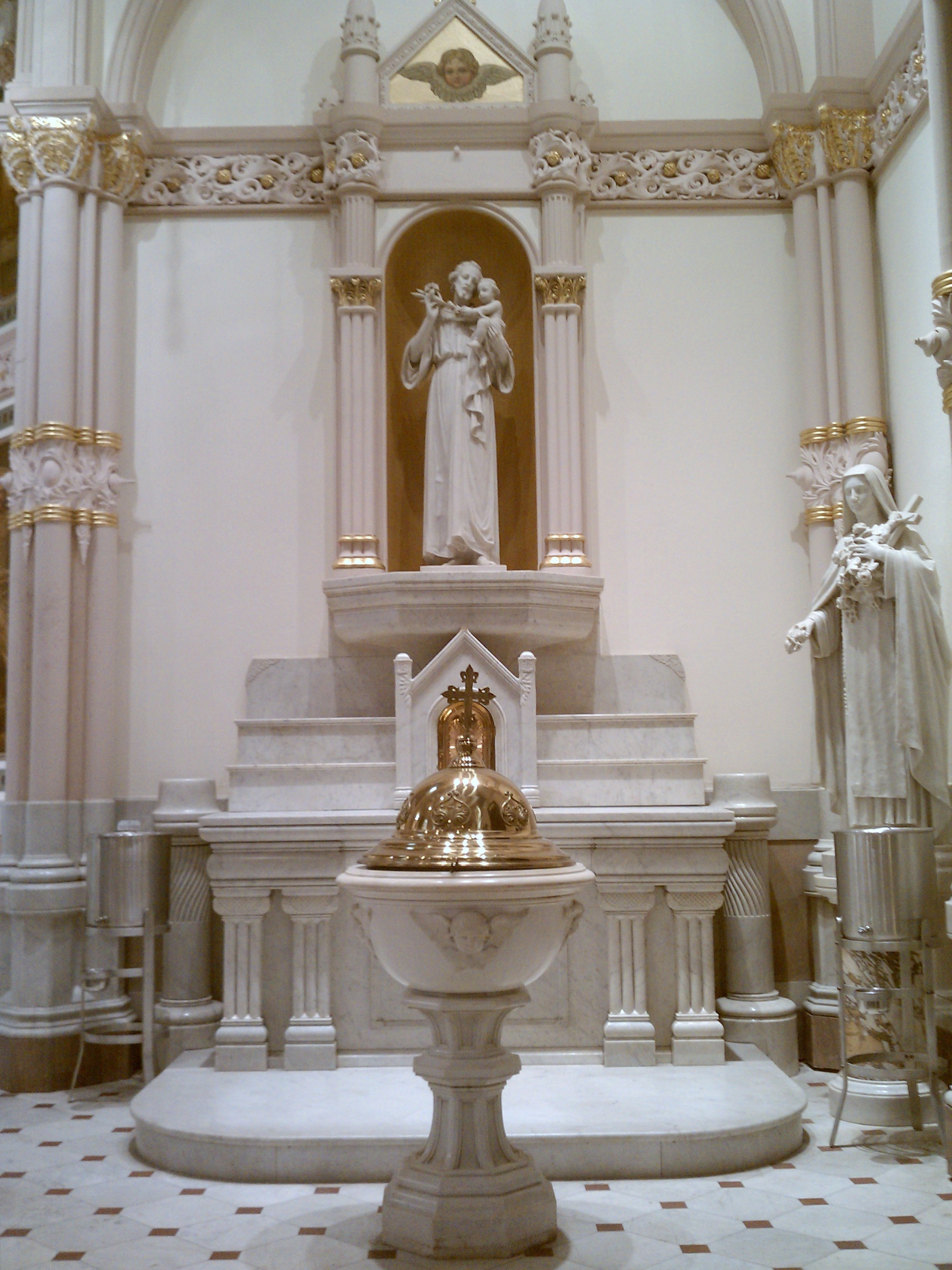 This if the Baptismal font at St. Michael's Church 19122.